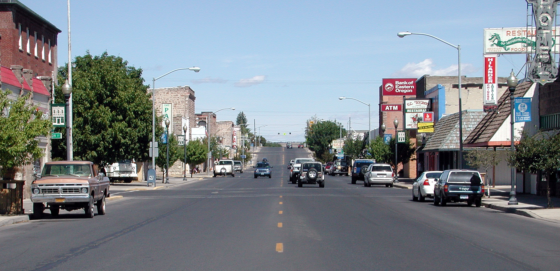 Looking north on North Broadway Avenue, the main street of downtown Burns, Oregon